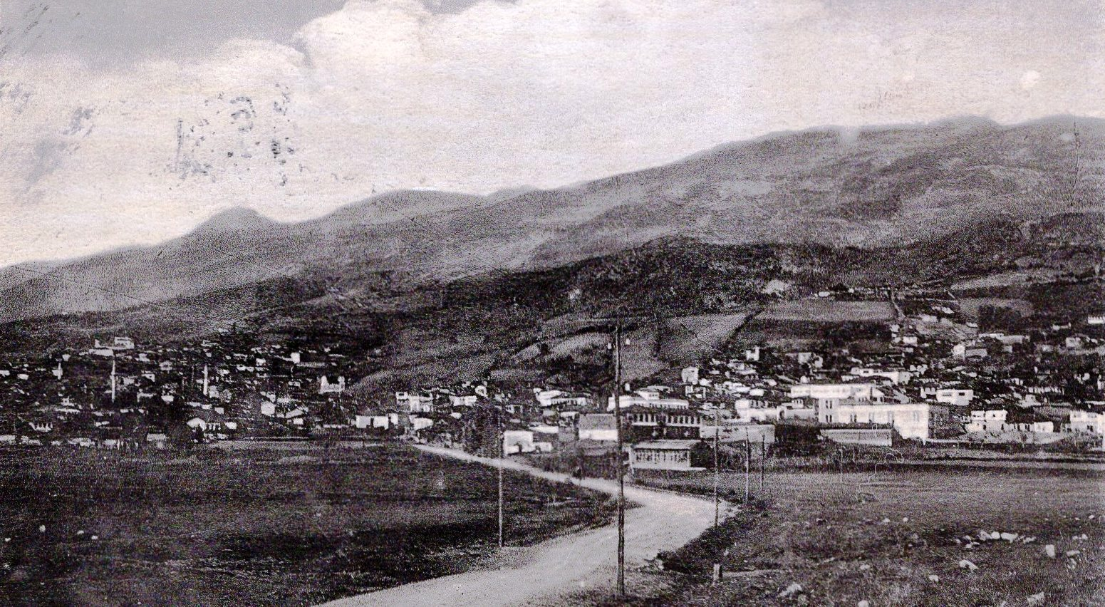 Postcard of Debar, 1937 This media file is produced by Wikipedian in Residence in Category:Wikipedian in Residence at DARM in 2016.